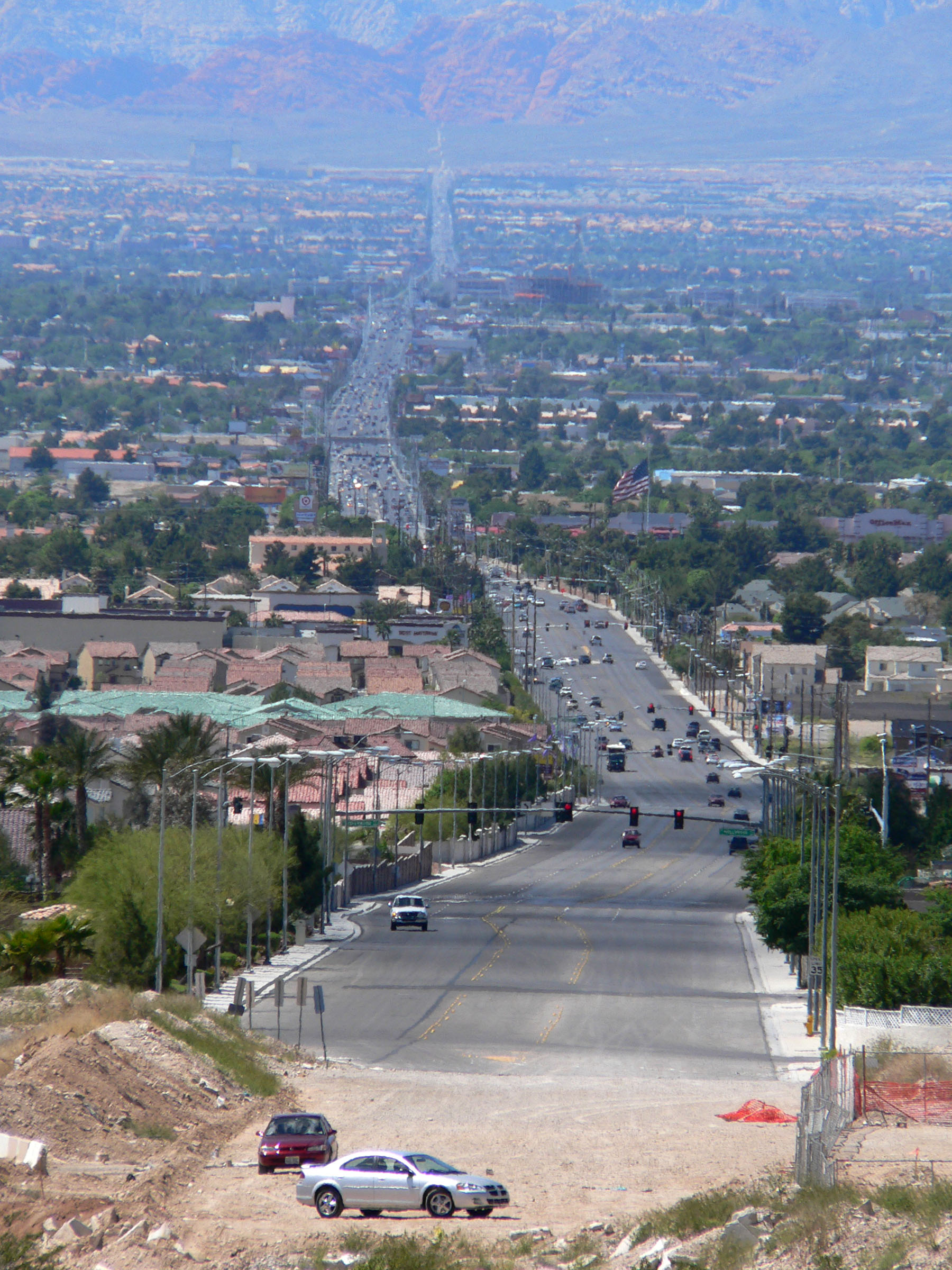 View looking west down Charleston Blvd from its east end, Las Vegas, Nevada